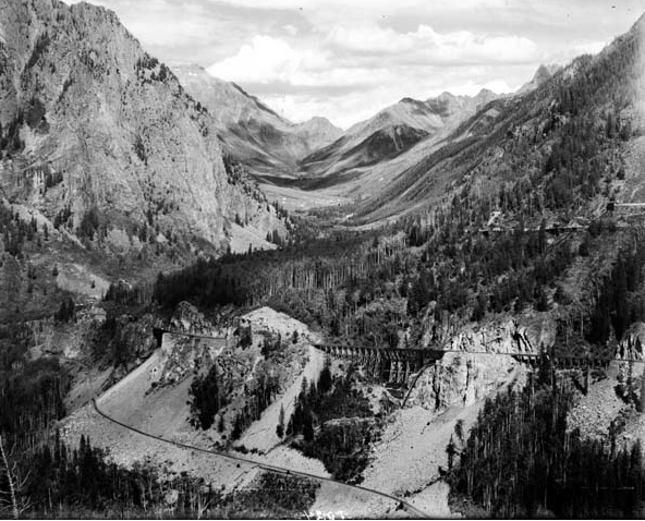 Ophir Loop, Rio Grande Southern Railroad, San Juan Mountains, Colorado. Photo by Byers Photo (Montrose, Colo.), circa 1910?